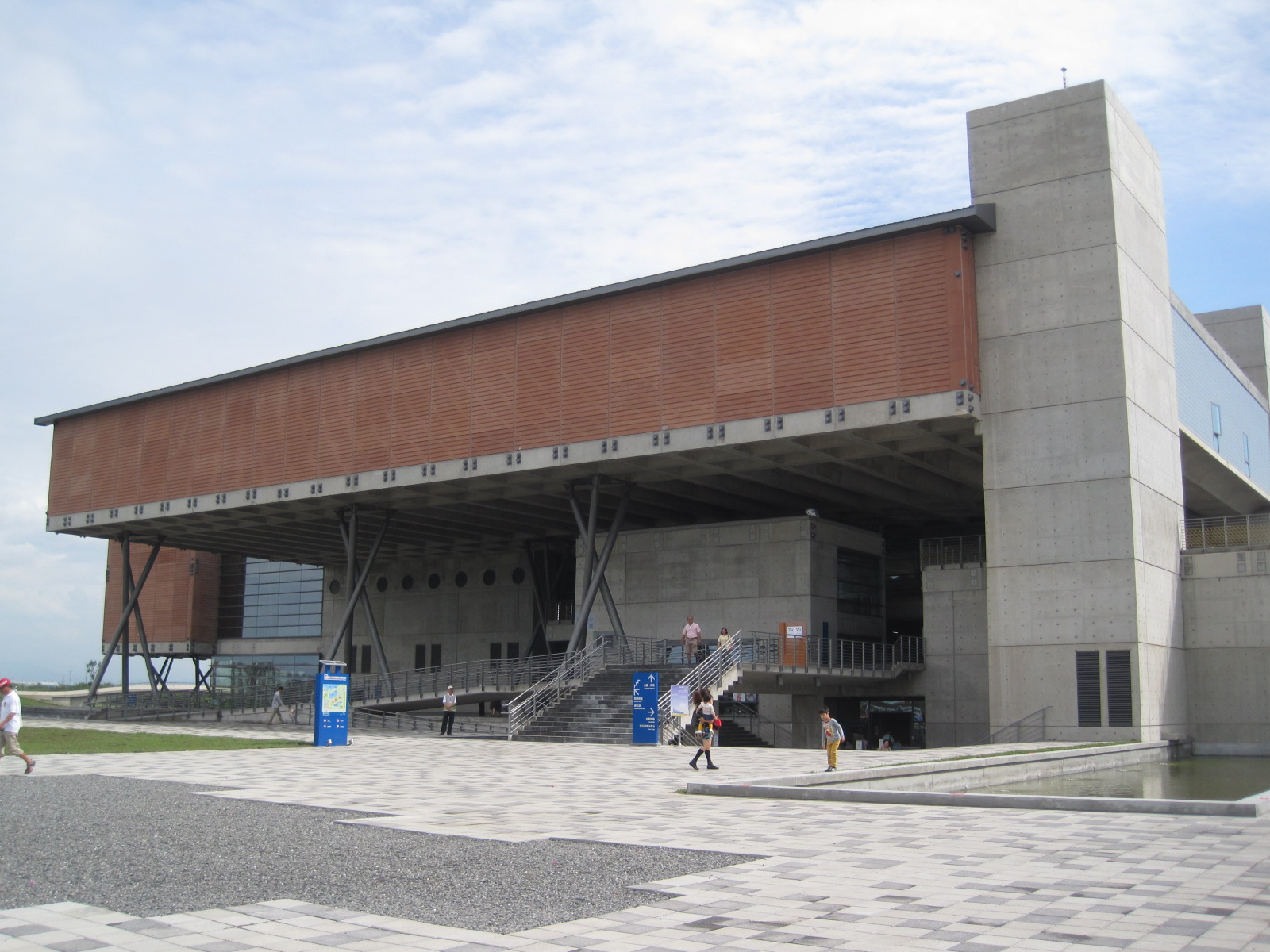 National Museum of Taiwan History